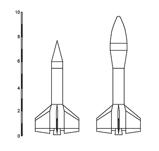 Falstaff rocket shape.